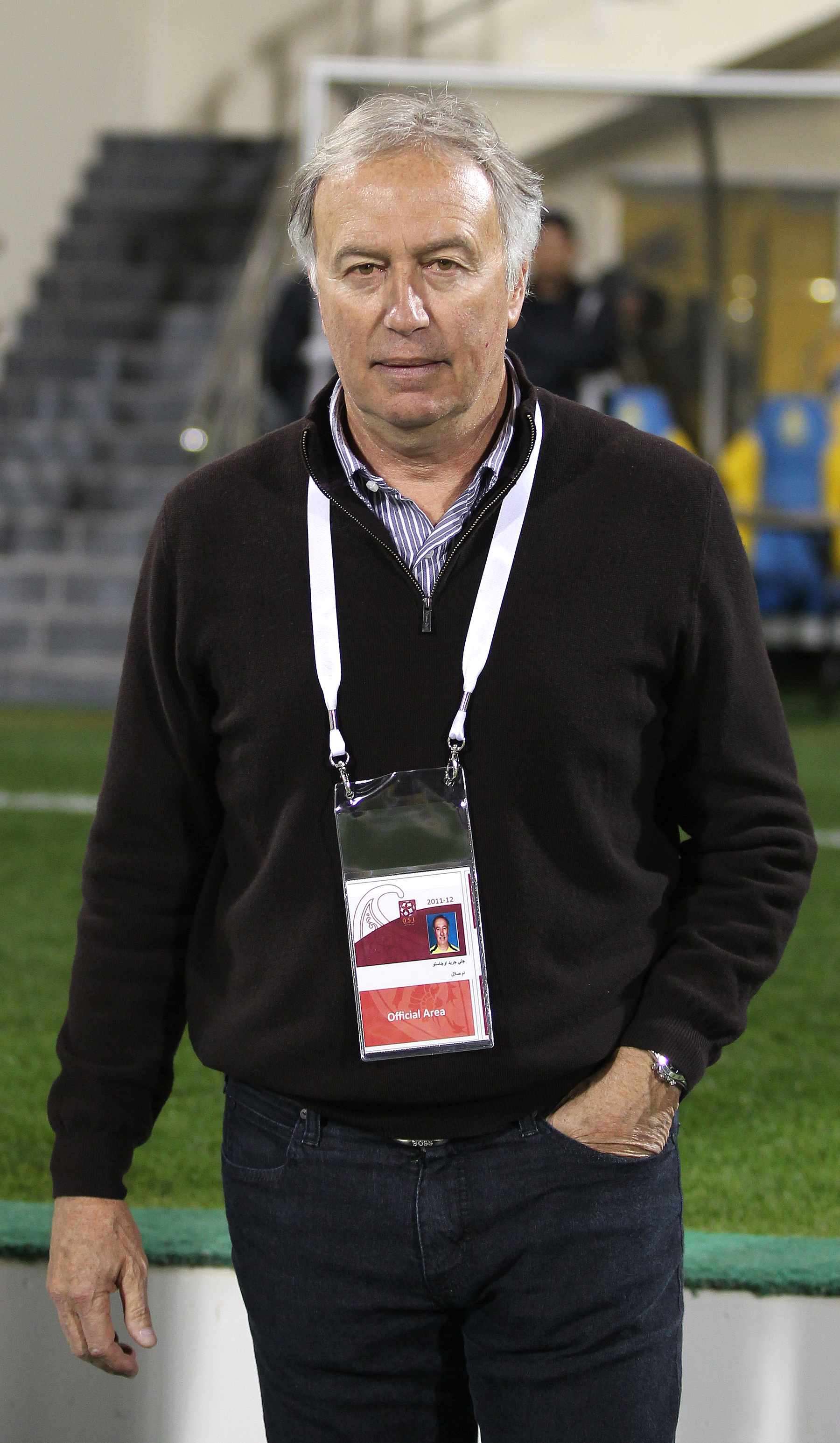 Umm Salal's French coach Gerard Gili enters the ground before the start of a Qatar Stars League match. Picture by Doha Stadium Plus